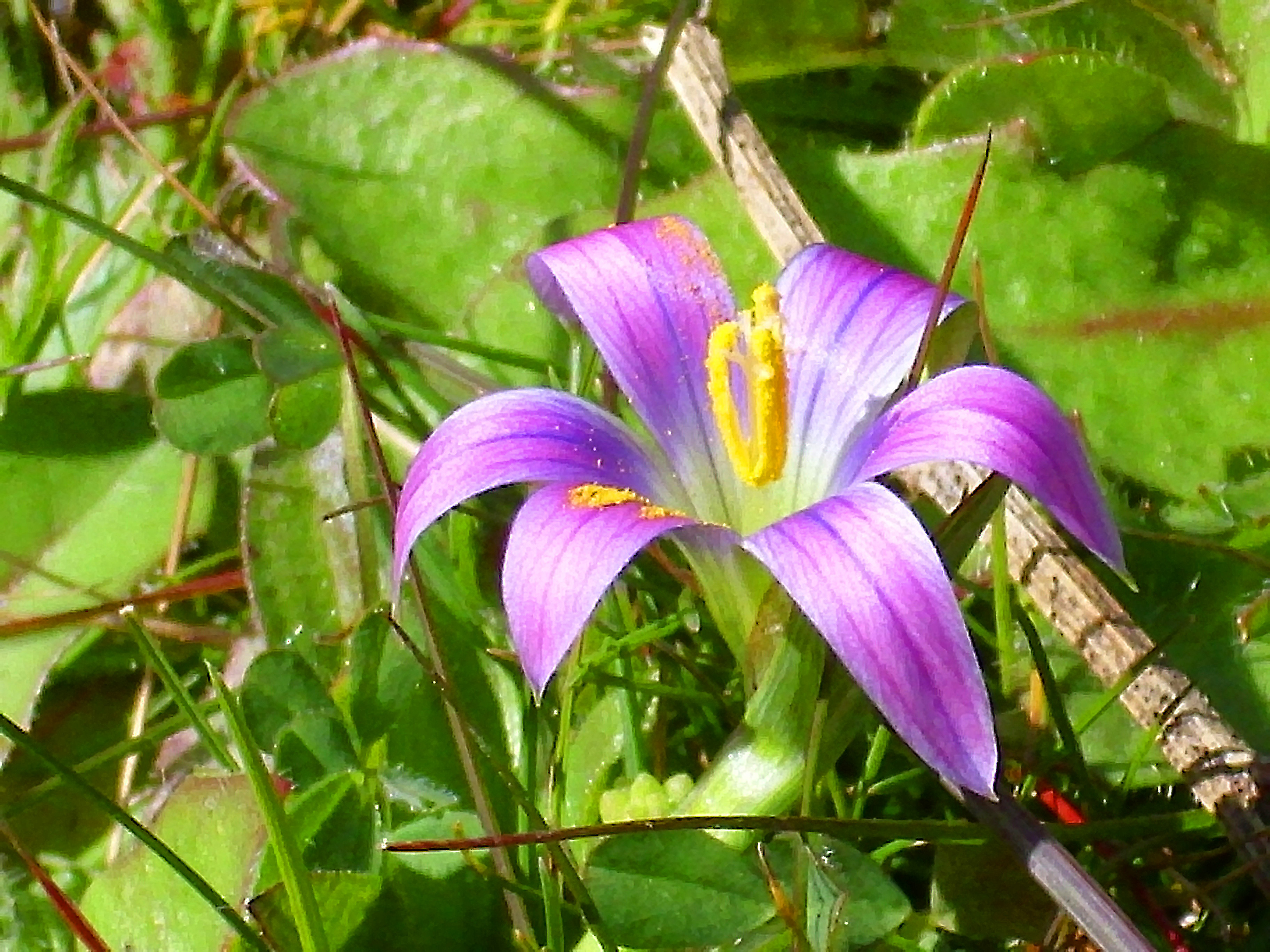 Romulea bulbocodium flower close up, Sierra Madrona, Spain